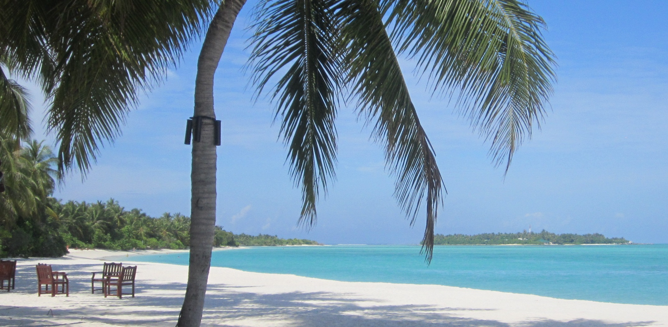 Nalaguraidhoo (Sun Island) Northern Beach Lagoon View to the West towards Fenfushi Island